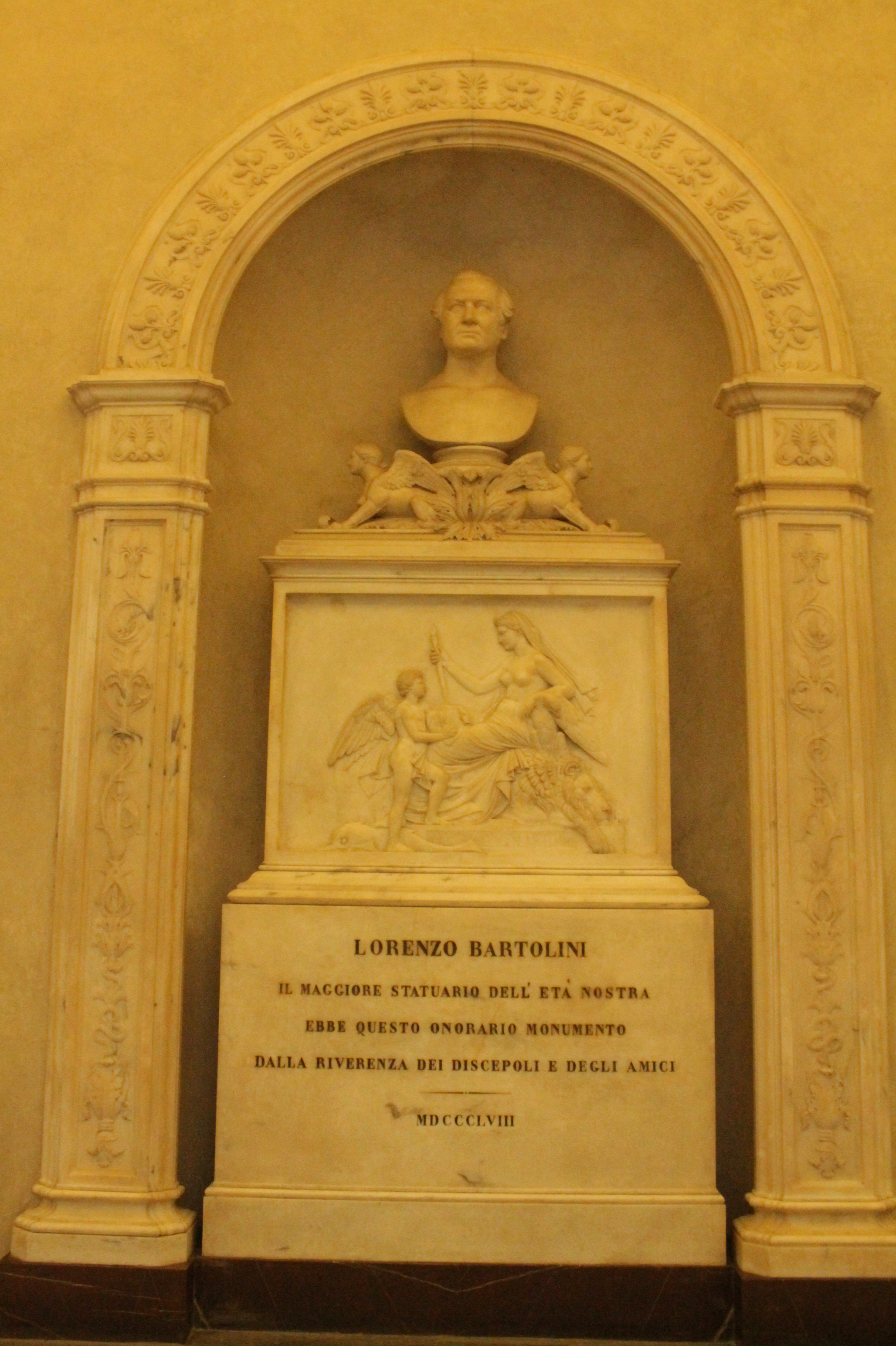 The grave of Lorenzo Bartolini, Church of Santa Croce, Florence